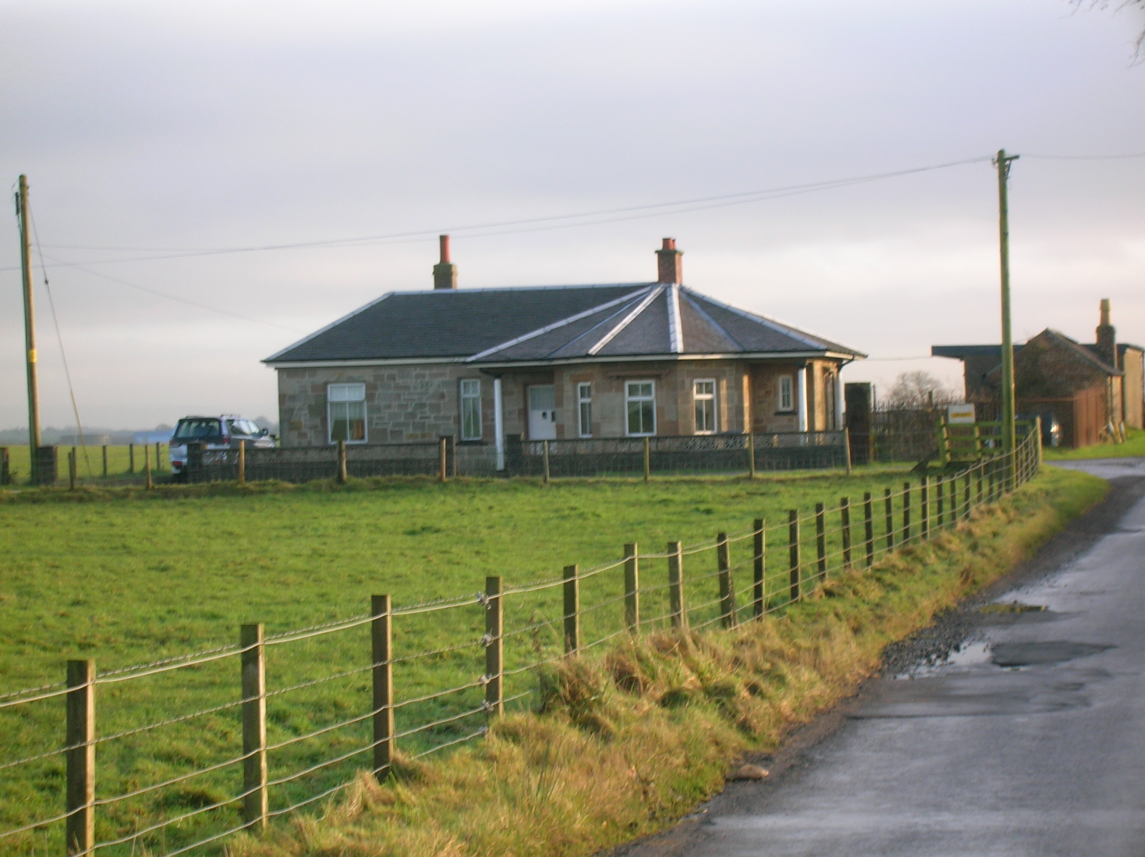 Girgenti East Lodge. Torranyard. North Ayrshire. Scotland.